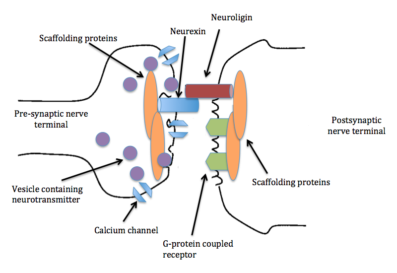 This is a cartoon of a synapse in which neurexin and neuroligin is shown interacting and recruiting synaptic elements.